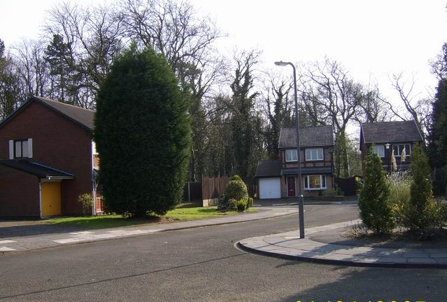 Brookside This is what remains of Brookside Close that was the featured of Channel 4's soap Brookside